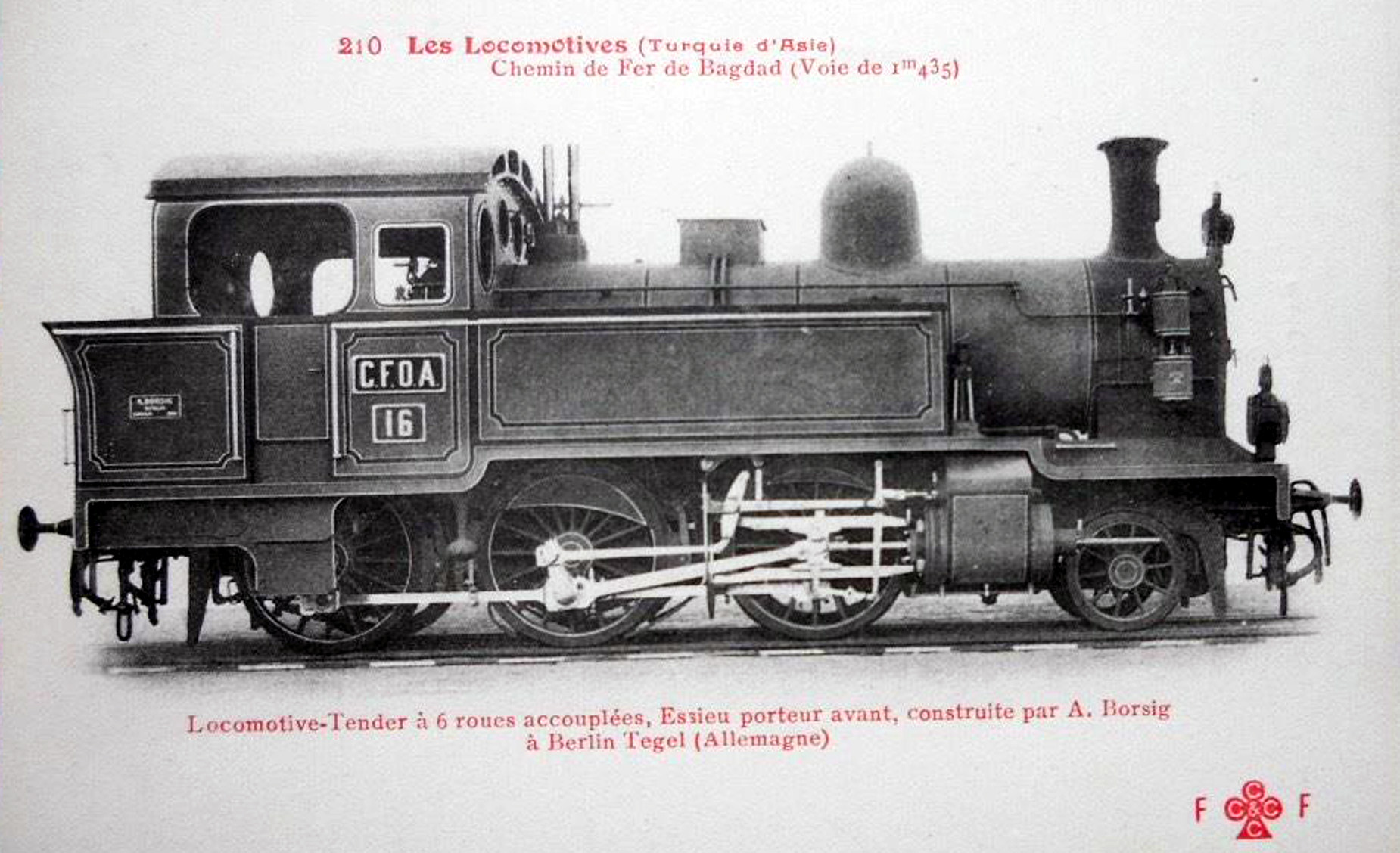 built by Borsig